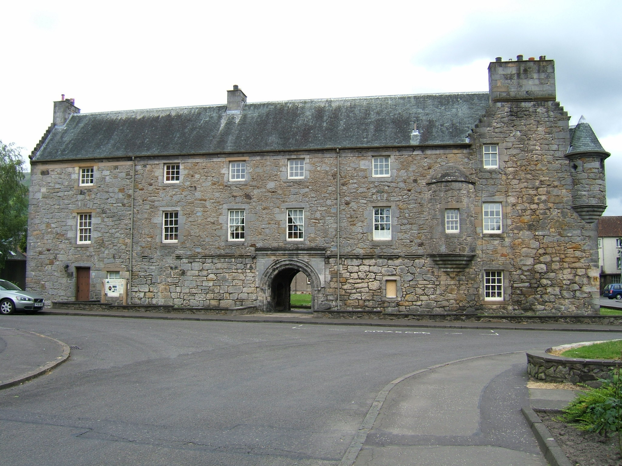 Menstrie Castle from the west in June 2008